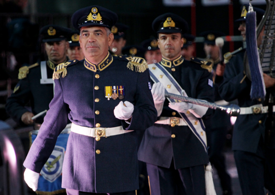 The 5th International military and musical festival "Spasskaya Tower" official opening